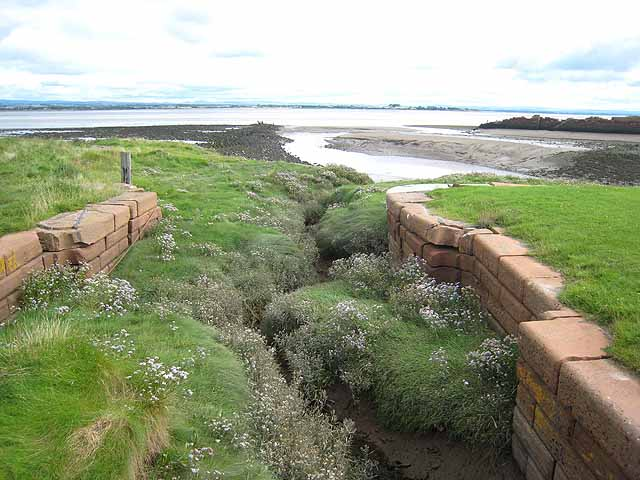 Old sea lock on the Carlisle Canal Port Carlisle was constructed in the 19th century to provide a deep-water port for Carlisle. A canal was constructed from here to Carlisle, completed in 1823, but was closed after only 30 years. The port did not flourish and is now just a ruin. The Scottish shore can be seen on the far side of the Solway Firth.